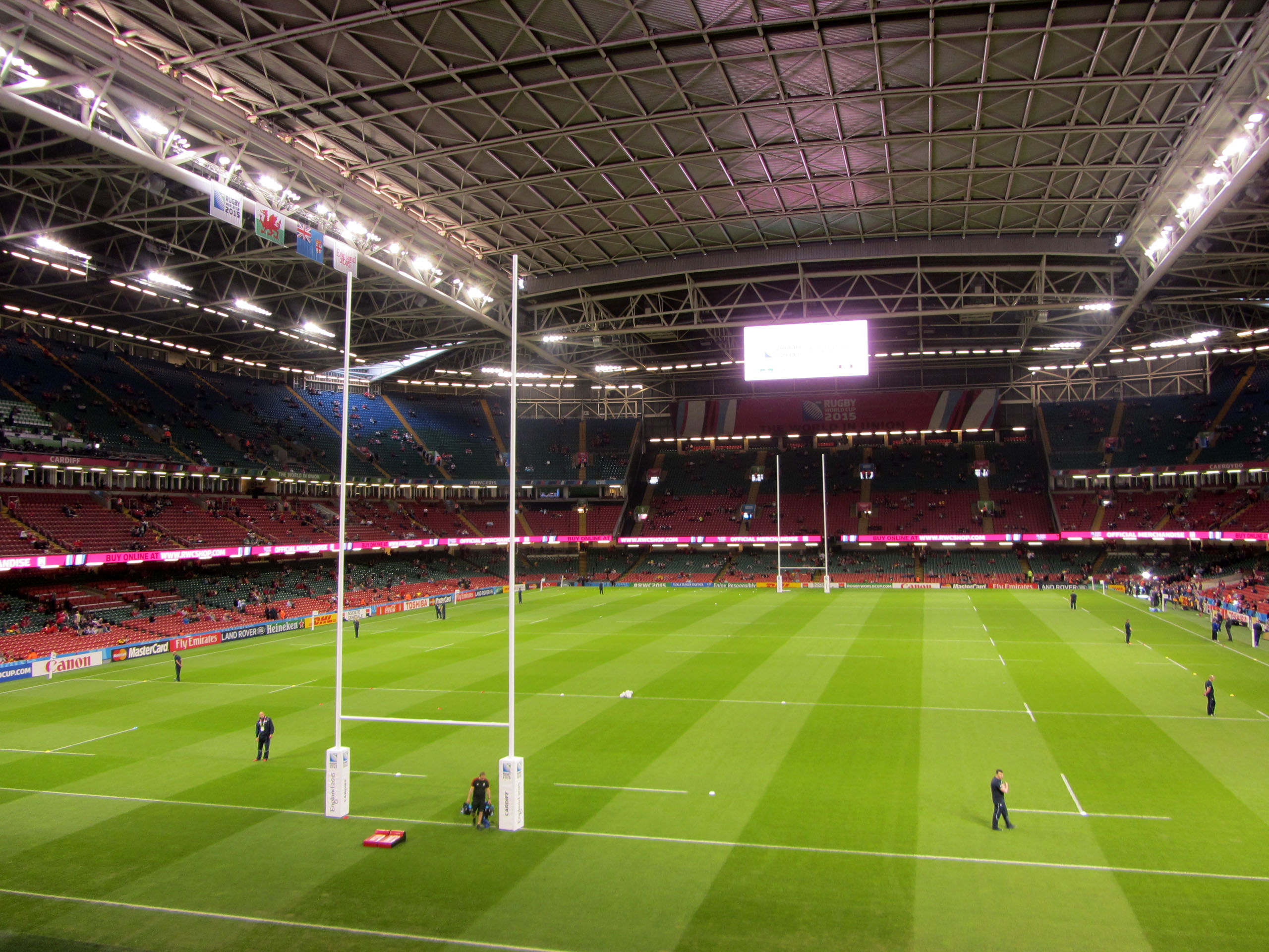 Inside the Millennium Stadium before the clash between Wales and Fiji on 1 October 2015